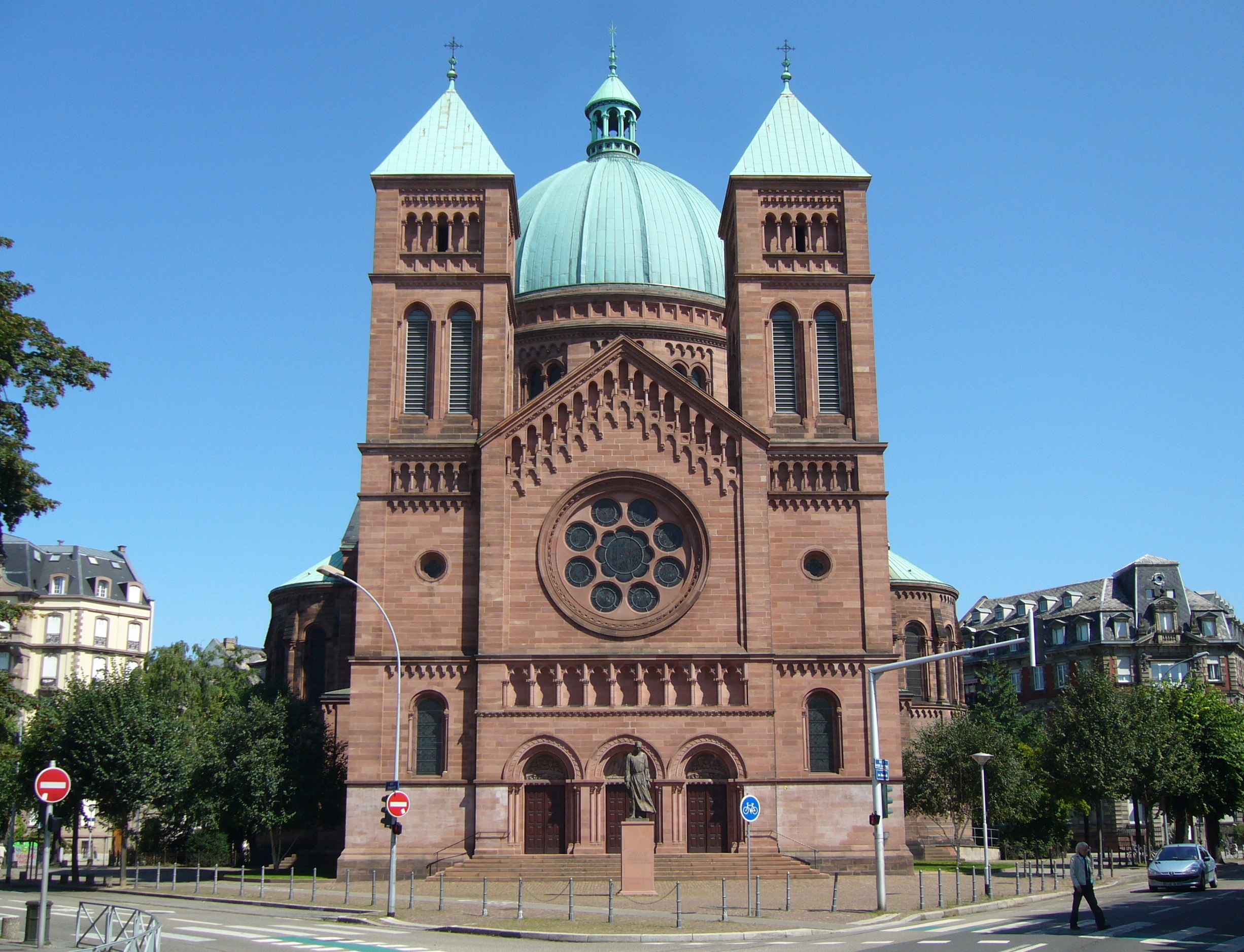 Strasbourg (Bas-Rhin, Alsace, France), catholic church Saint-Pierre-le-Jeune with statue of Charles de Foucauld.